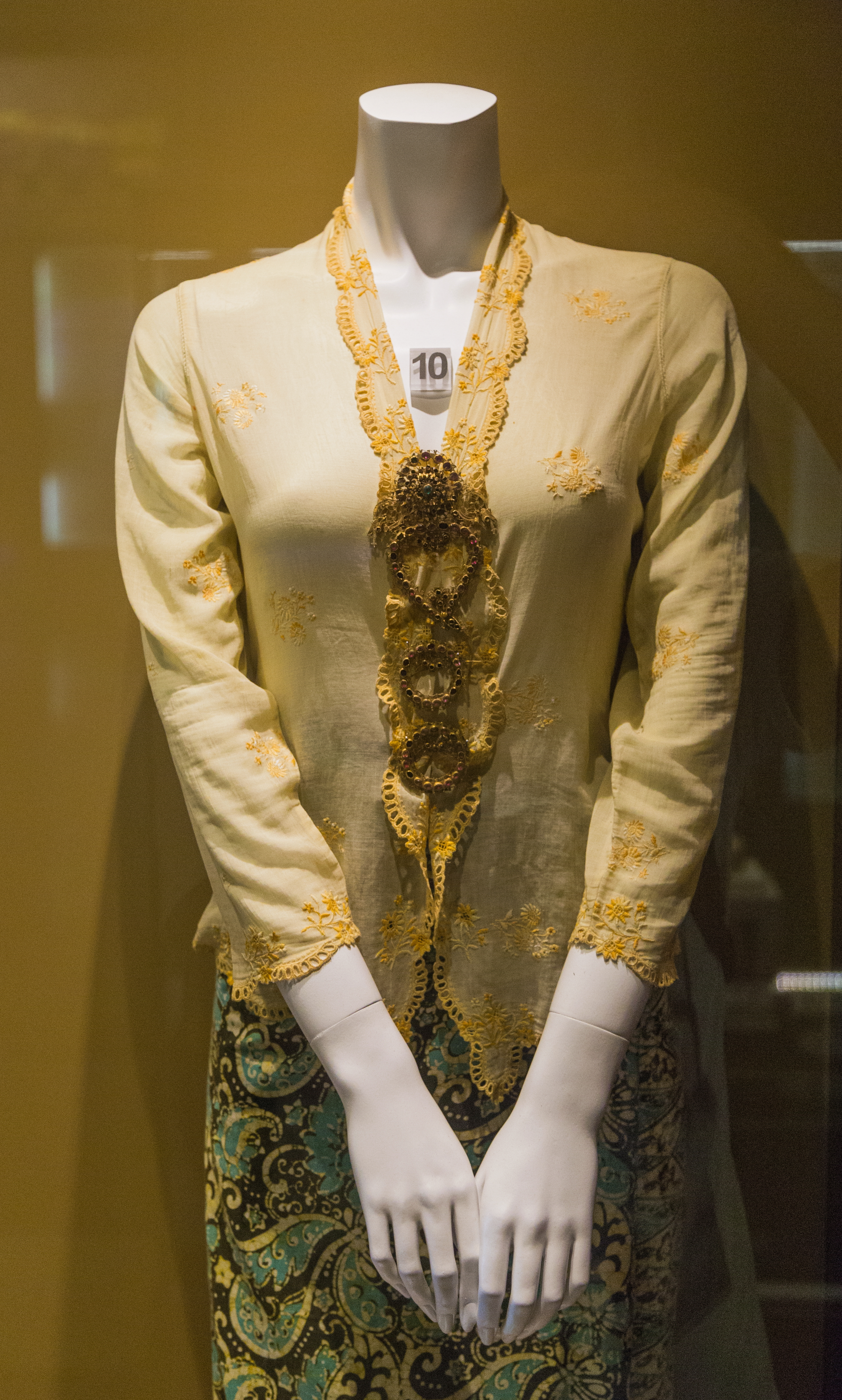 Blouse called kebaya pendek, worn with a batik sarong by Peranakan Chinese women in the early 20th century. National Museum (Muzium Negara). Kuala Lumpur, Malaysia.